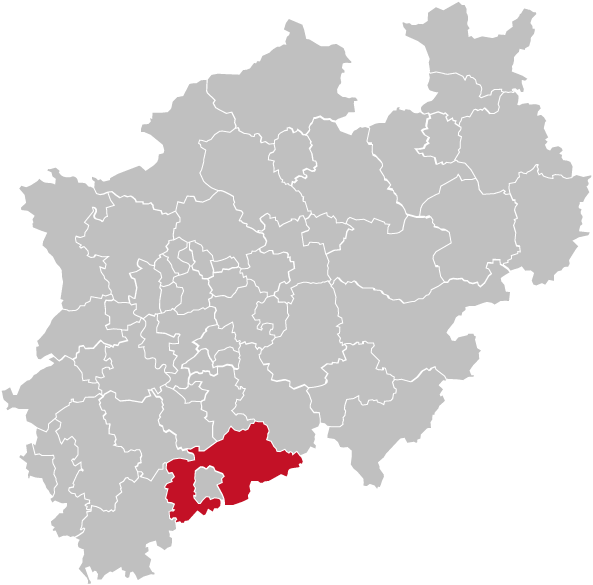 Map of Rhein-Sieg Kreis, a District of Northrhine-Westphalia (NRW), Germany. Red/Grey colors match the color scheme of Germany maps and information boxes in German Wikipedia. Kreis is highlighted in red. Former version of map was based upon [:Image:North rhine w template.png] that displayed some districts in the Cologne/Bonn area not correctly.based upon template